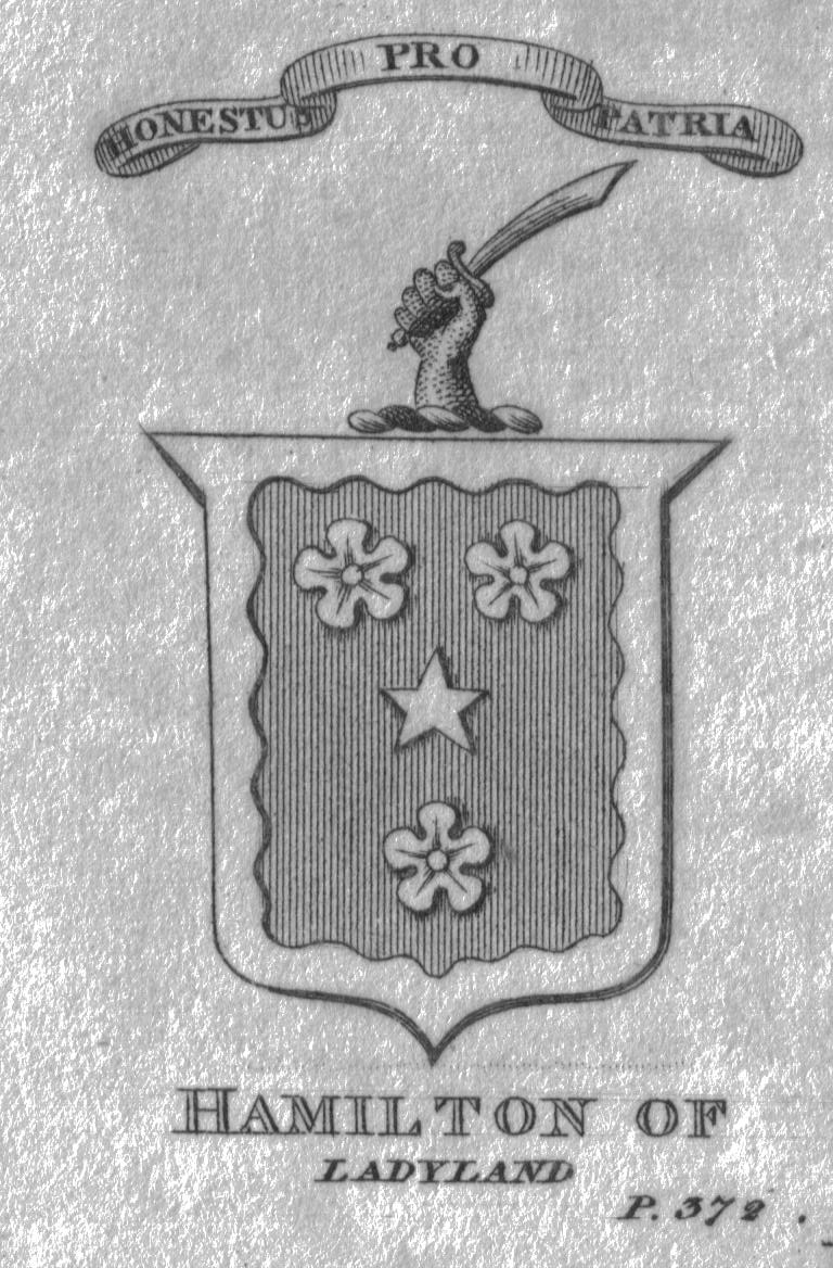 Coat of Arms of the Hamilton family of Ladyland House, Kilbirnie, North Ayrshire, Scotland.